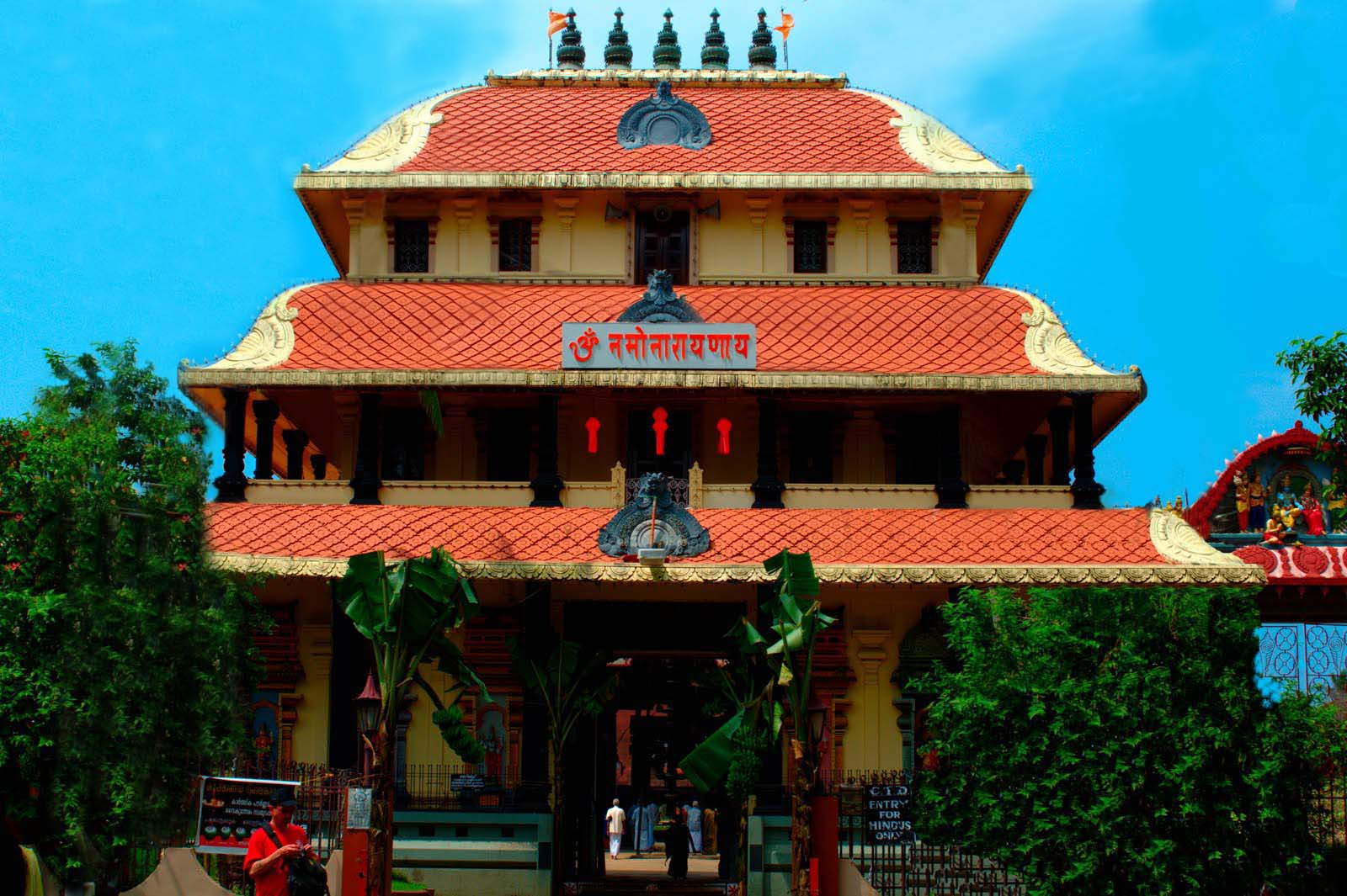 Gosripuram Temple Eastern Tower/Gopuram